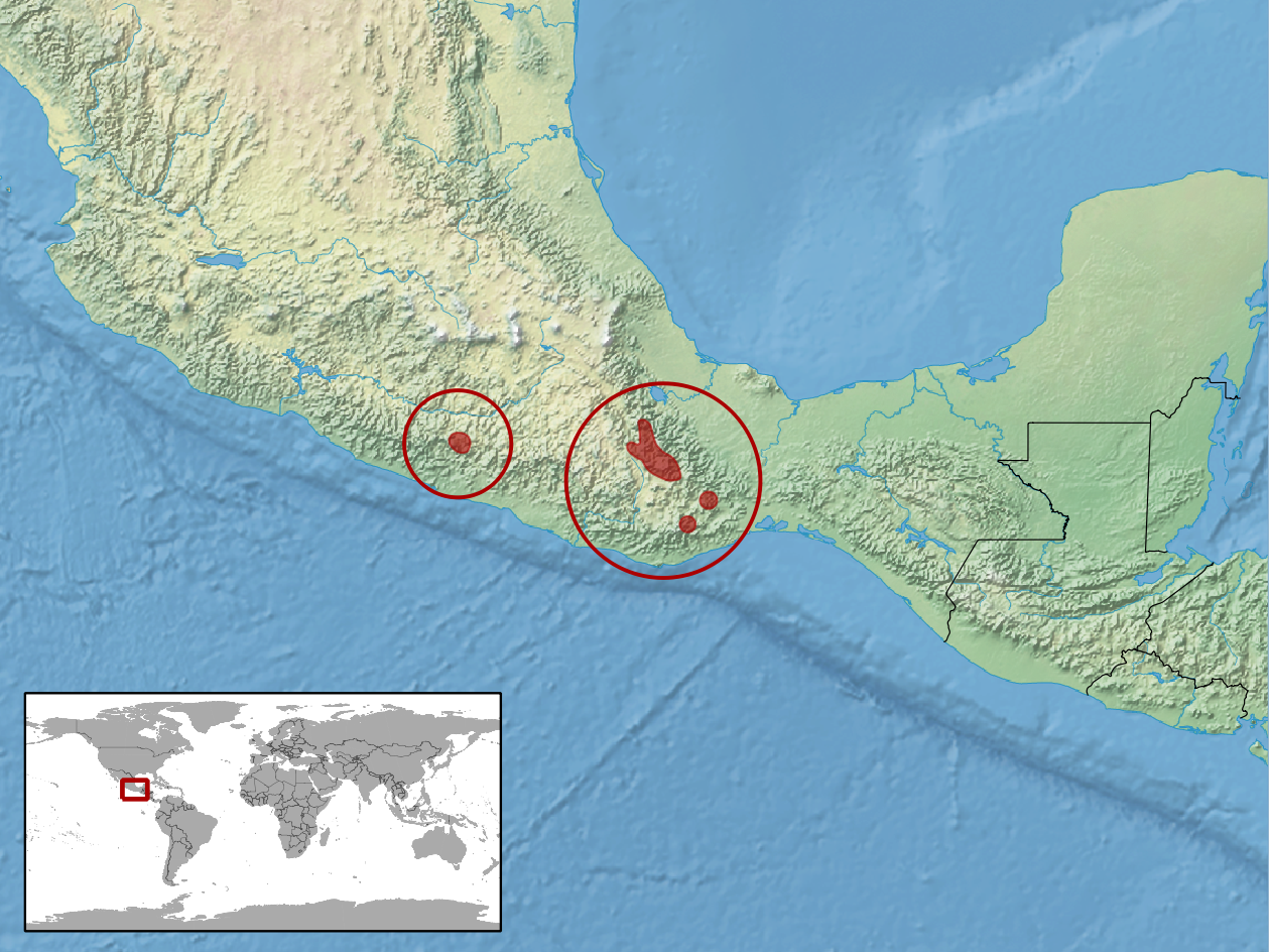 geographic distribution of Conopsis megalodon (Native: Mexico)